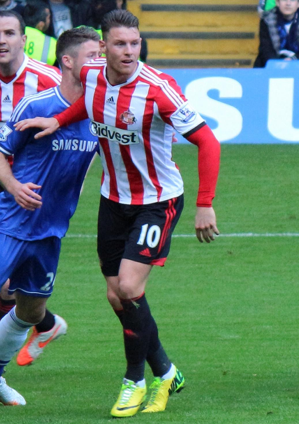 Connor Wickham playing for Sunderland on 19 April 2014